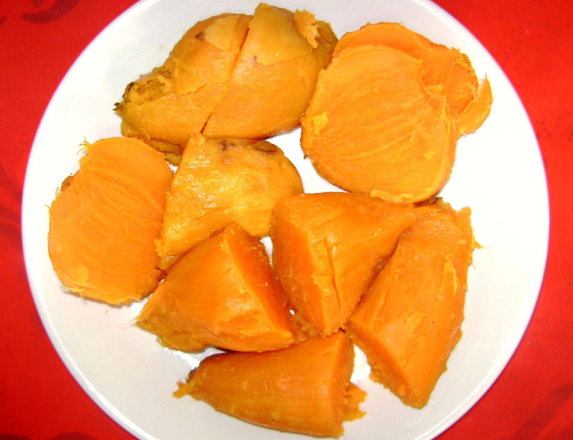 Sweet potatoe from Perú, boiled and peeled